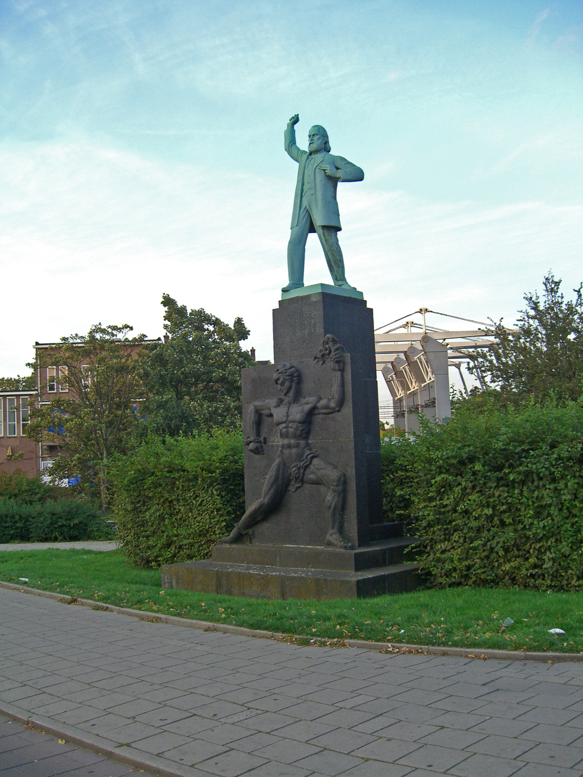 The monument from Ferdinand Domela Nieuwenhuis with relief from Prometheus (1931) by Johan Polet is located in Amsterdam